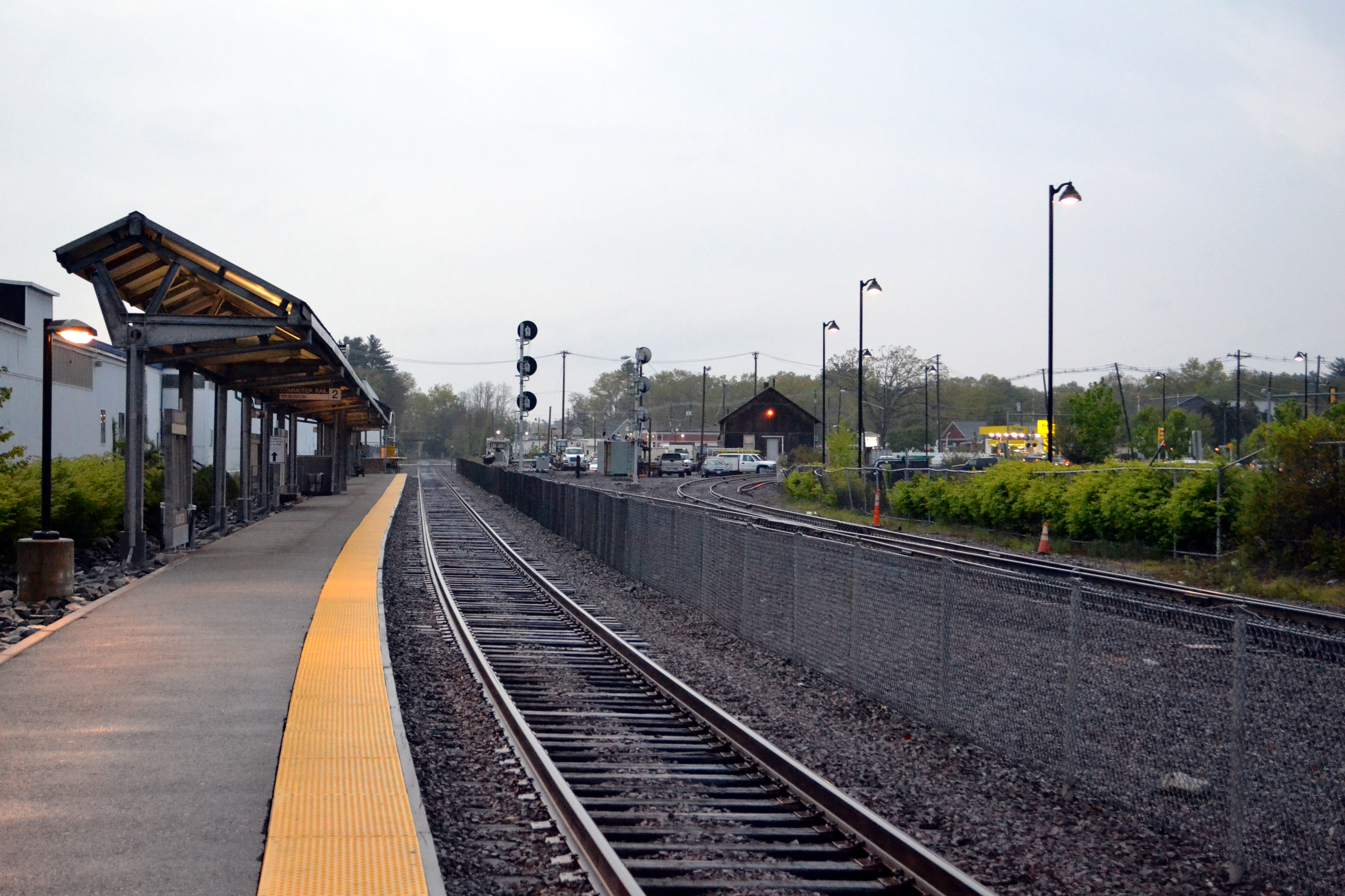 Wilmington Junction at Wilmington Station in Wilmington, Massachusetts. This photo is taken from the inbound platform. The MBTA Lowell Line stops here, as well as the Amtrak Downeaster and a few MBTA Haverhill Line trains. The Haverhill and Downeaster trains diverge at the right, onto the Wildcat Branch, which connects the Lowell Line to the Haverhill Line. Pan Am Railways "DOBO" (Dover to Boston) train also passed through here via the Wildcat, as well as various freight locals.